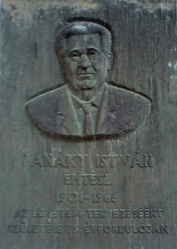 Miklós Varga: István Janáky, architect. University of Miskolc, Hungary